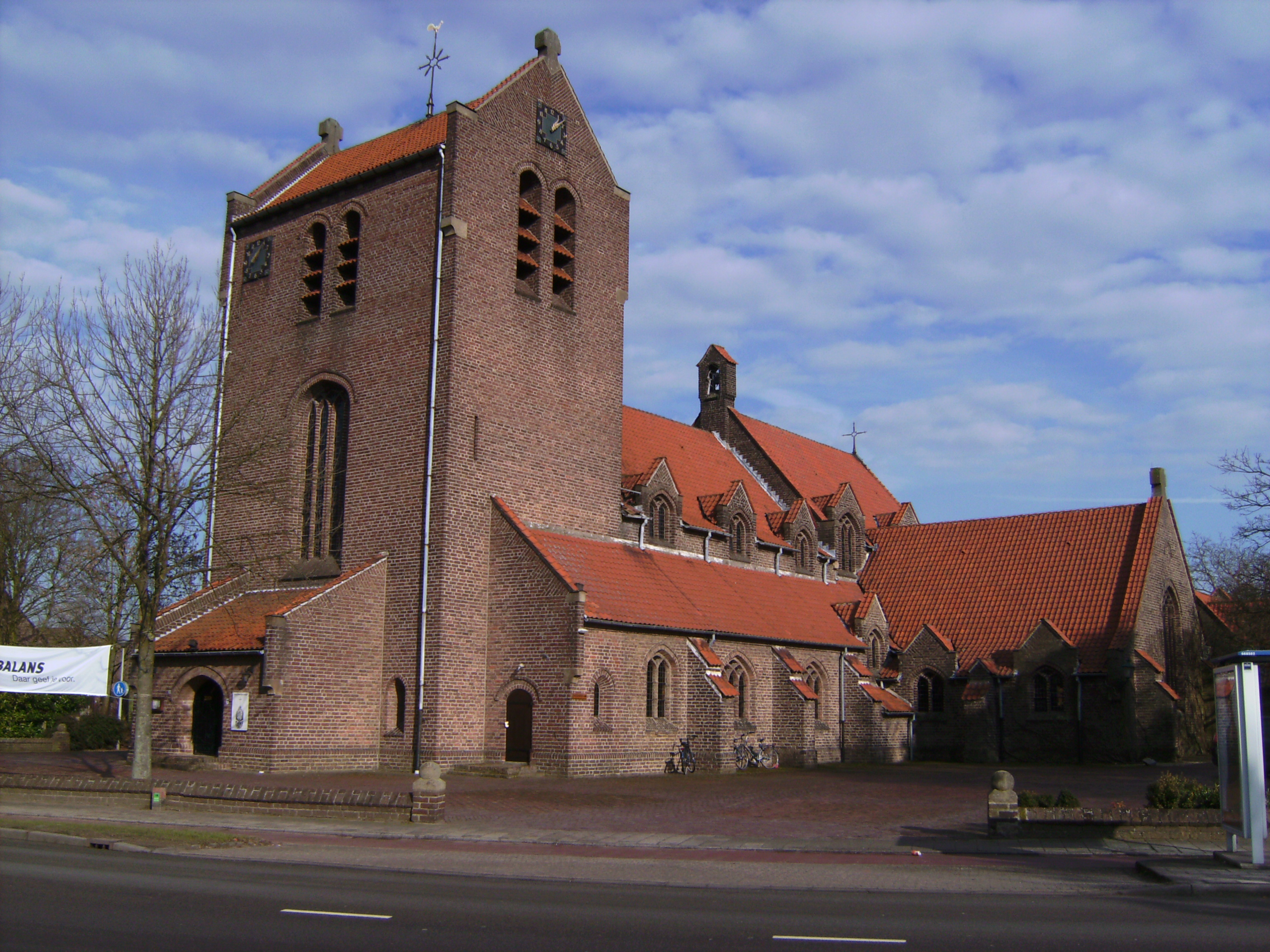 Haalderen, church